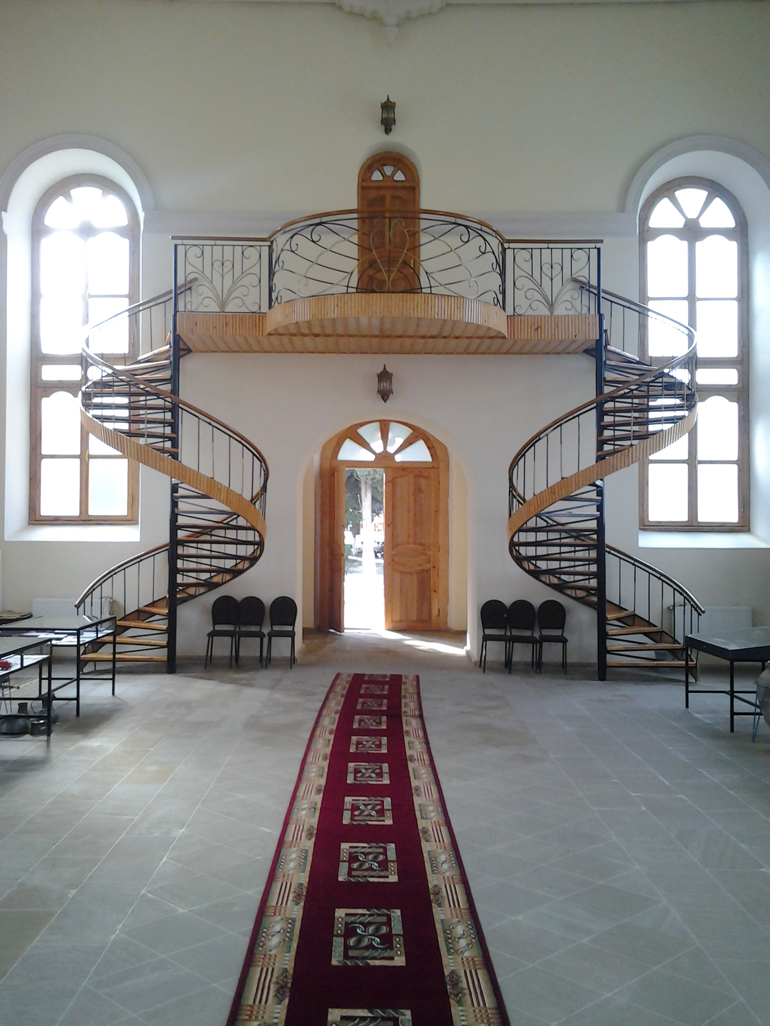 Church (Kirche) in Helenendorf (today - Goygol in Azerbaijan)